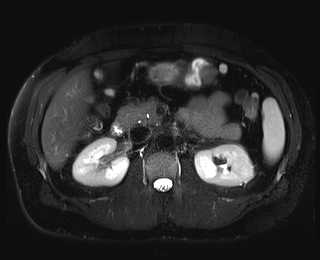 axial slice of abdomen, image was acquired by 3T NMR